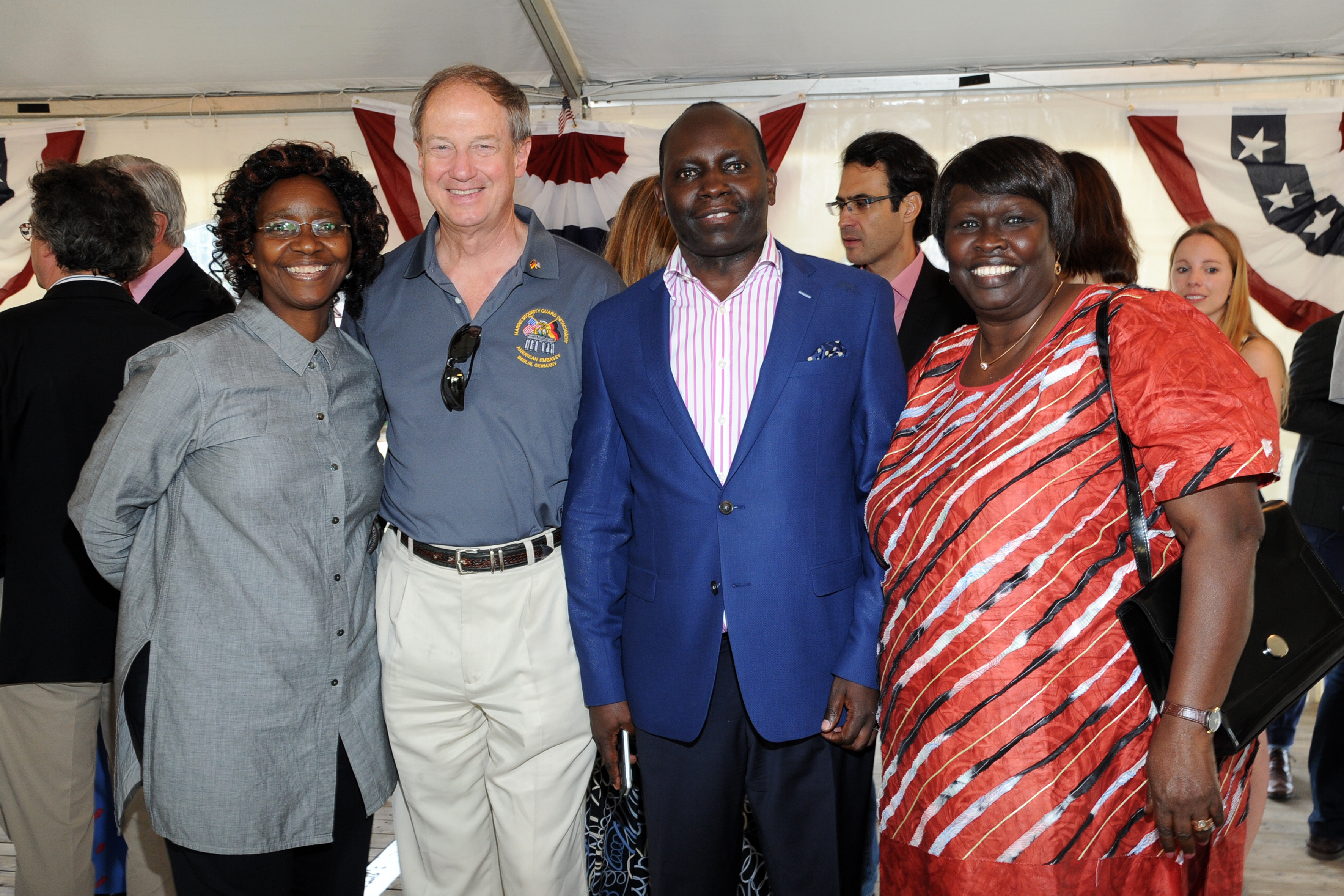 L to R: Ruth Masodzi Chikwira, John B. Emerson, Joseph Magutt, and Sitona Abdalla Osman, Independence Day in Berlin, July 1, 2016